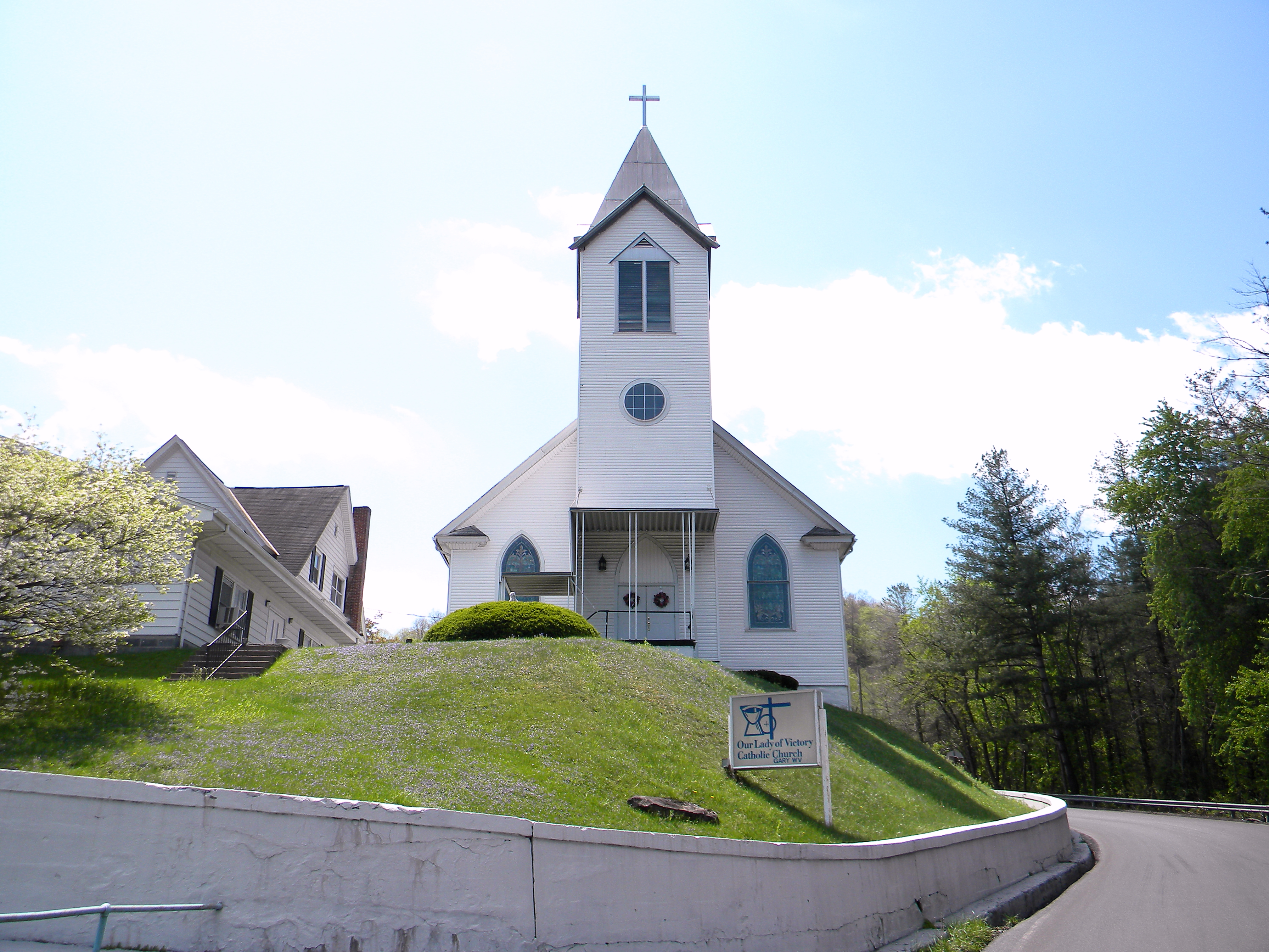 Gary West Virginia Main square